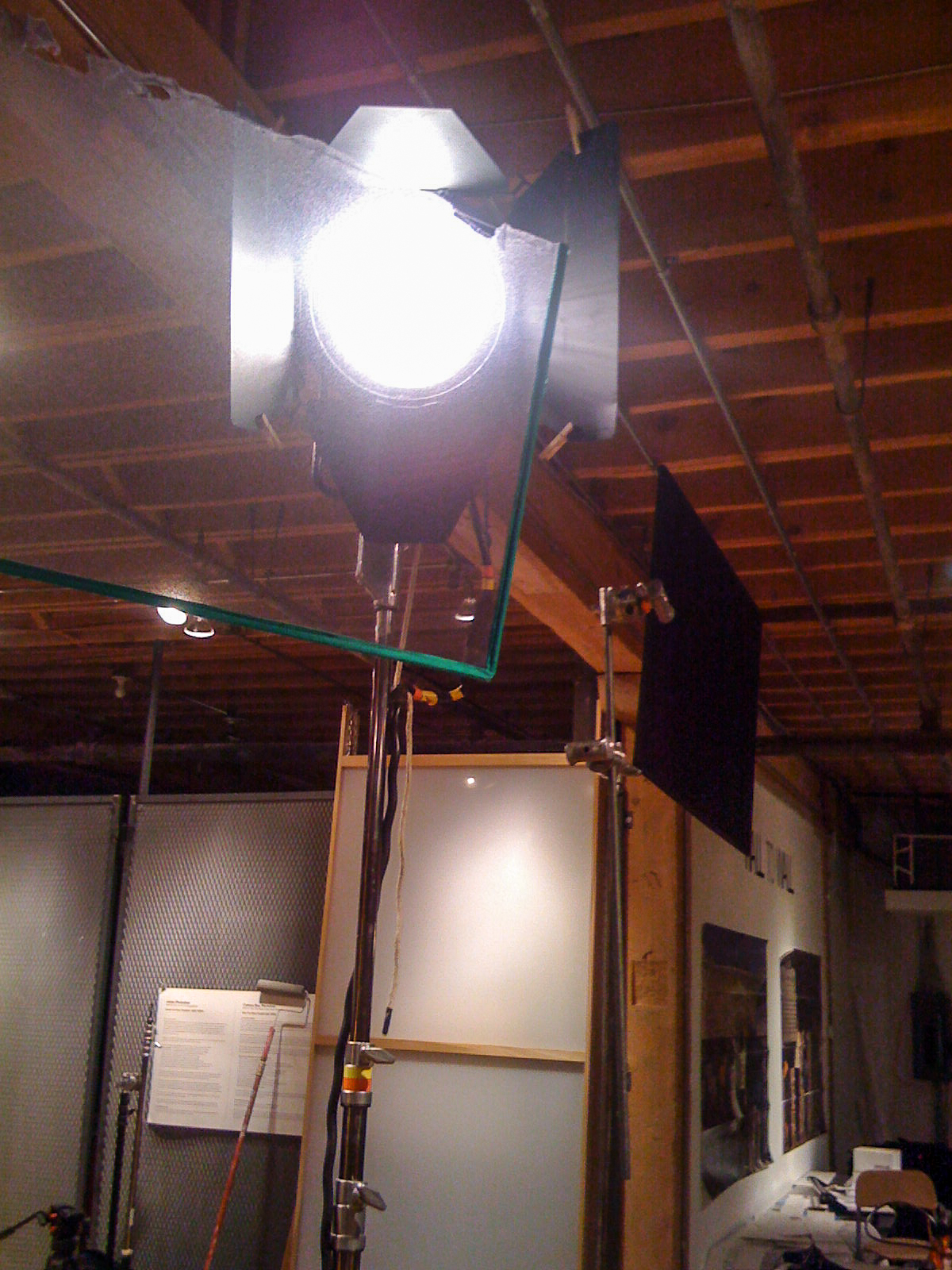 Photo Studio